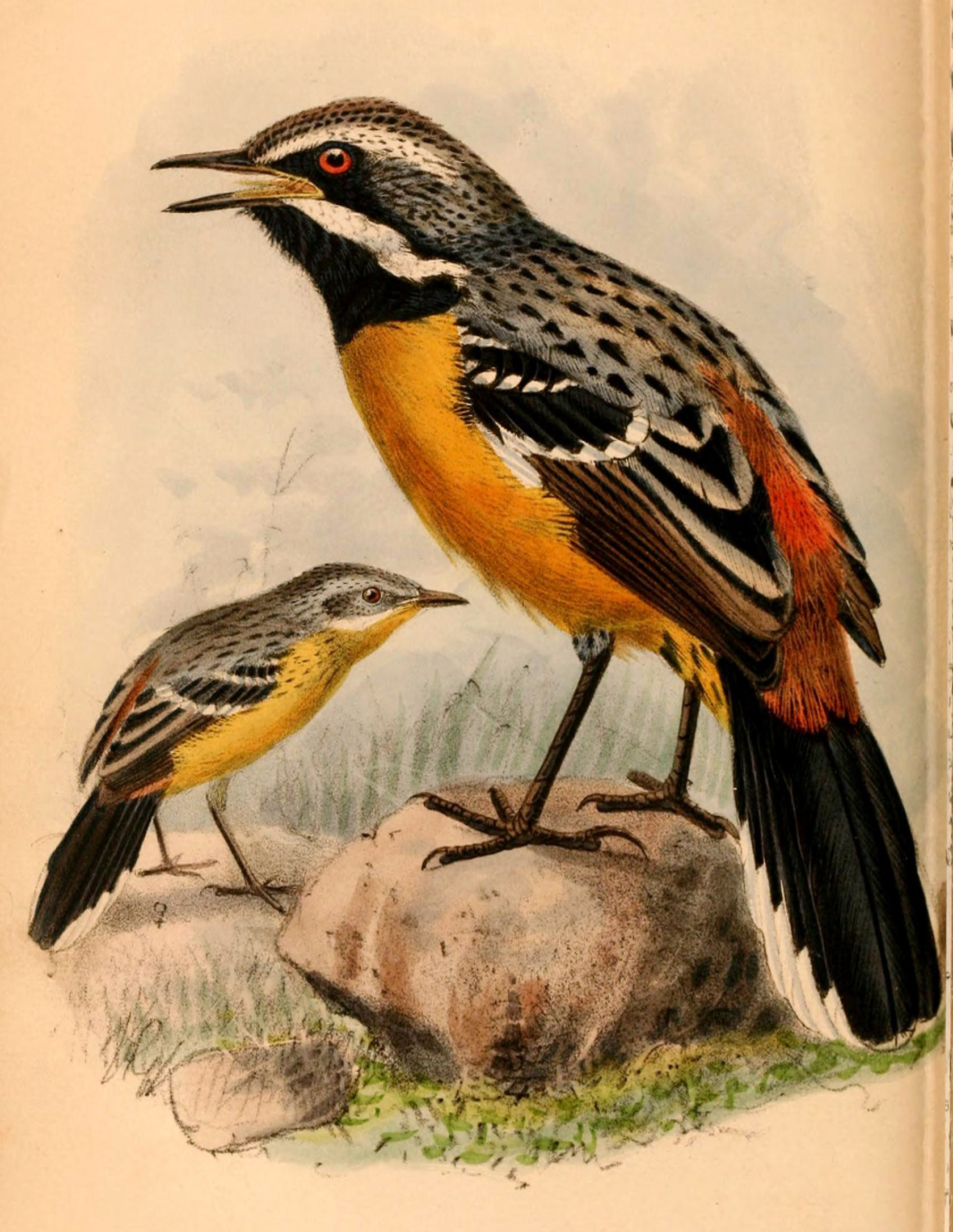 « Chaetops aurantius » = Chaetops aurantius (Drakensberg Rockjumper)